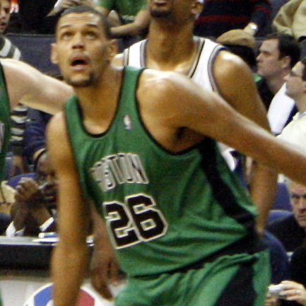 Patrick O'Bryant, then with the Boston Celtics.